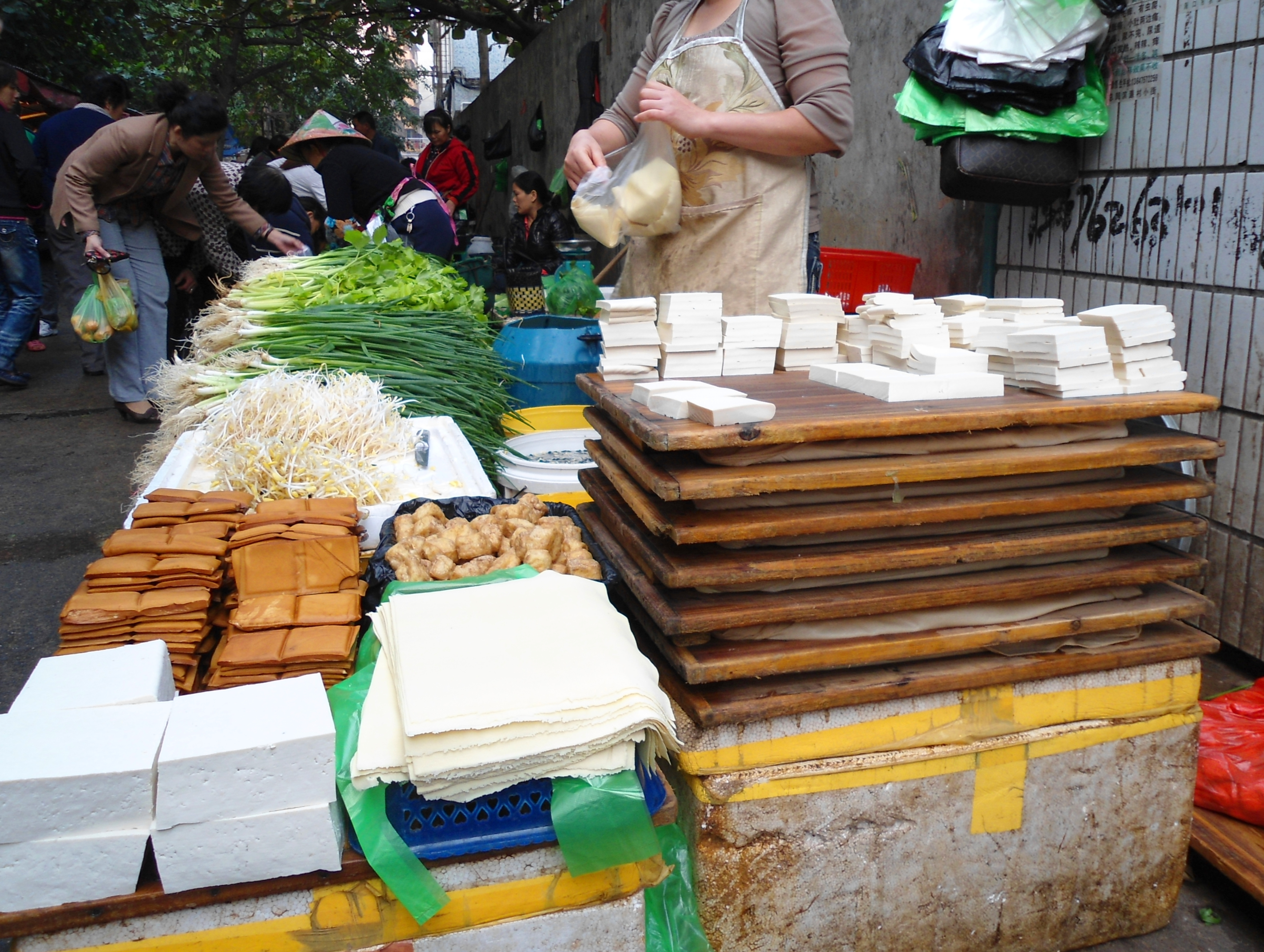 Various tofu products in a market in Haikou City, Hainan Province, China.